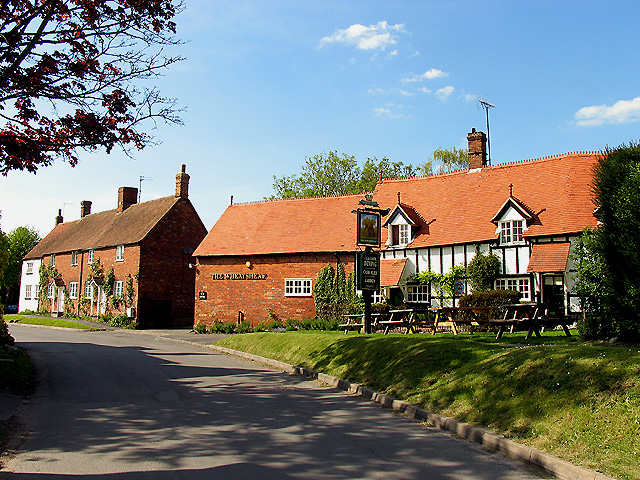 The Wheatsheaf pub, Chapel Square, East Hendred, Oxfordshire (formerly Berkshire), seen from the south